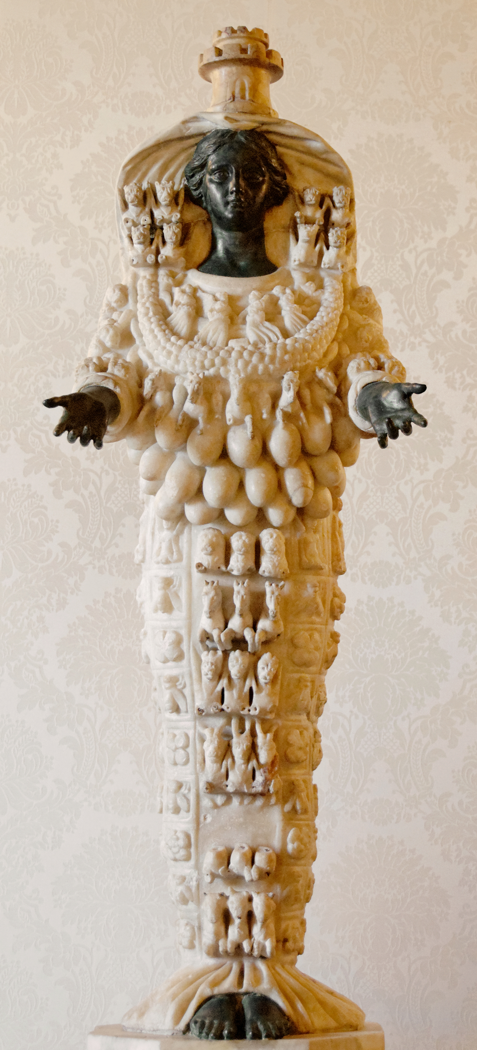 Artemis of Ephesus. Marble and bronze, Roman copy of an Hellenistic original of the 2nd century BC.